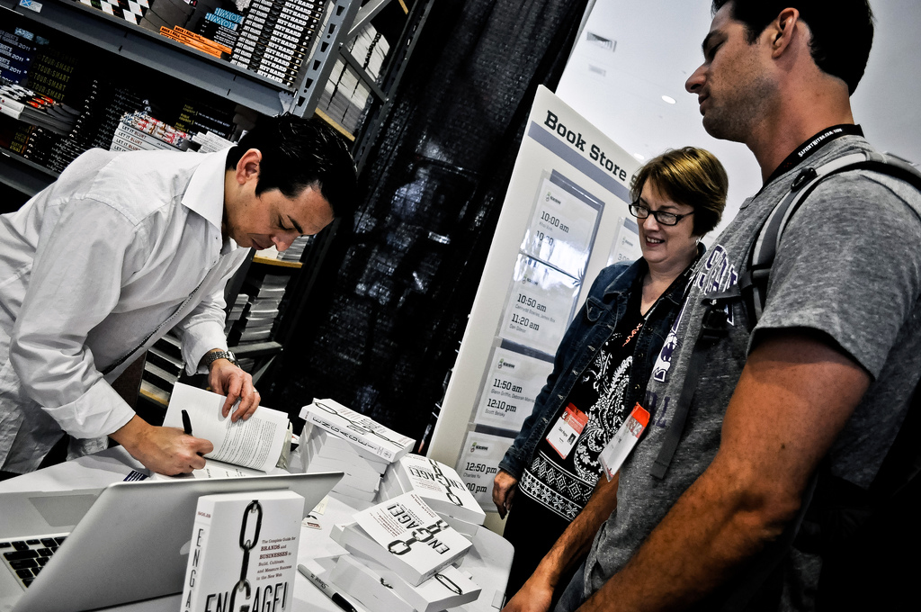 Brian Solis Signs ENGAGE! at SXSW 2011